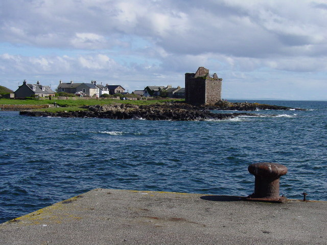 Portincross Castle as seen from the pier to the north Looking south from the pier just north of Portincross Castle. (BEWARE anyone venturing onto this pier there is a nasty hole in it part way along)